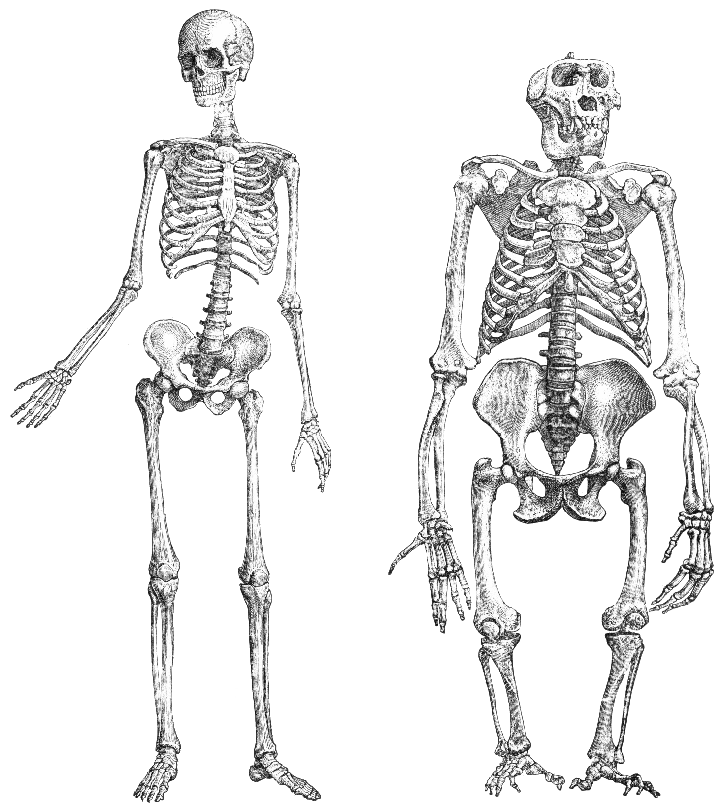 Transparent version of